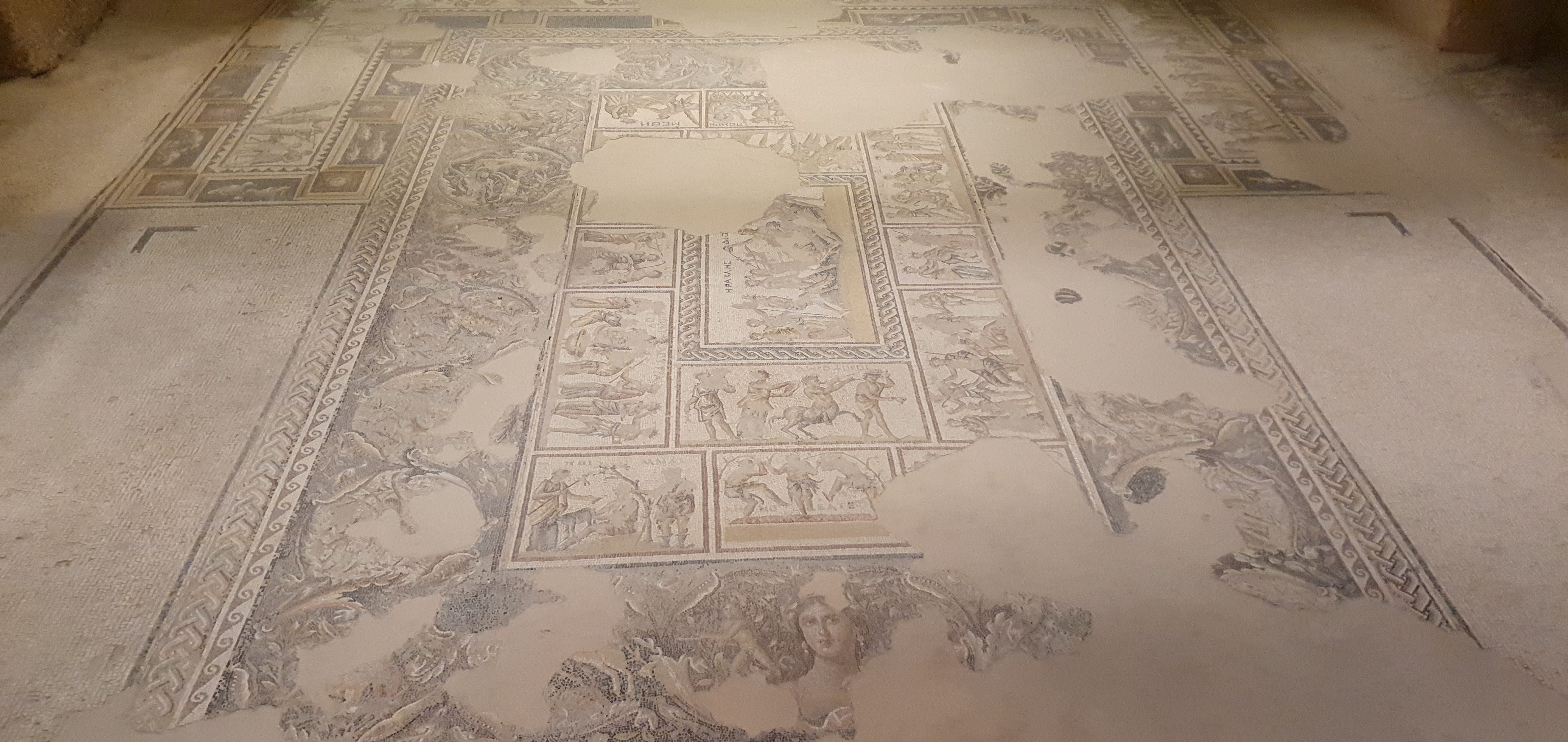 Dionysus Mosaic-TZippori